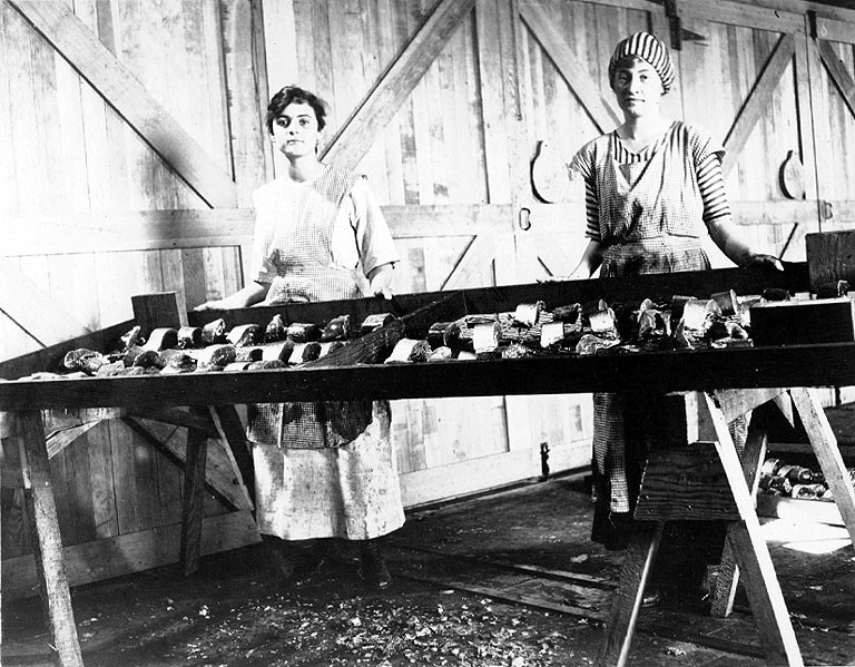 From John Cobb field notebook: Putting cut salmon on smoking trays. Sept 1916 Subjects (LCTGM): Smokehouses--Washington (State)--Bellingham; Canneries--Washington (State)--Bellingham Subjects (LCSH): Whatcom Fish Products Company; Salmon industry--Washington (State)--Bellingham; Women cannery workers--Washington (State)--Bellingham; Smoked fish--Washington (State)--Bellingham